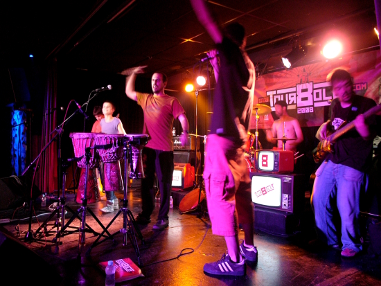 Valencian metal band Bakanal performing live at the Tourbolet finale in València